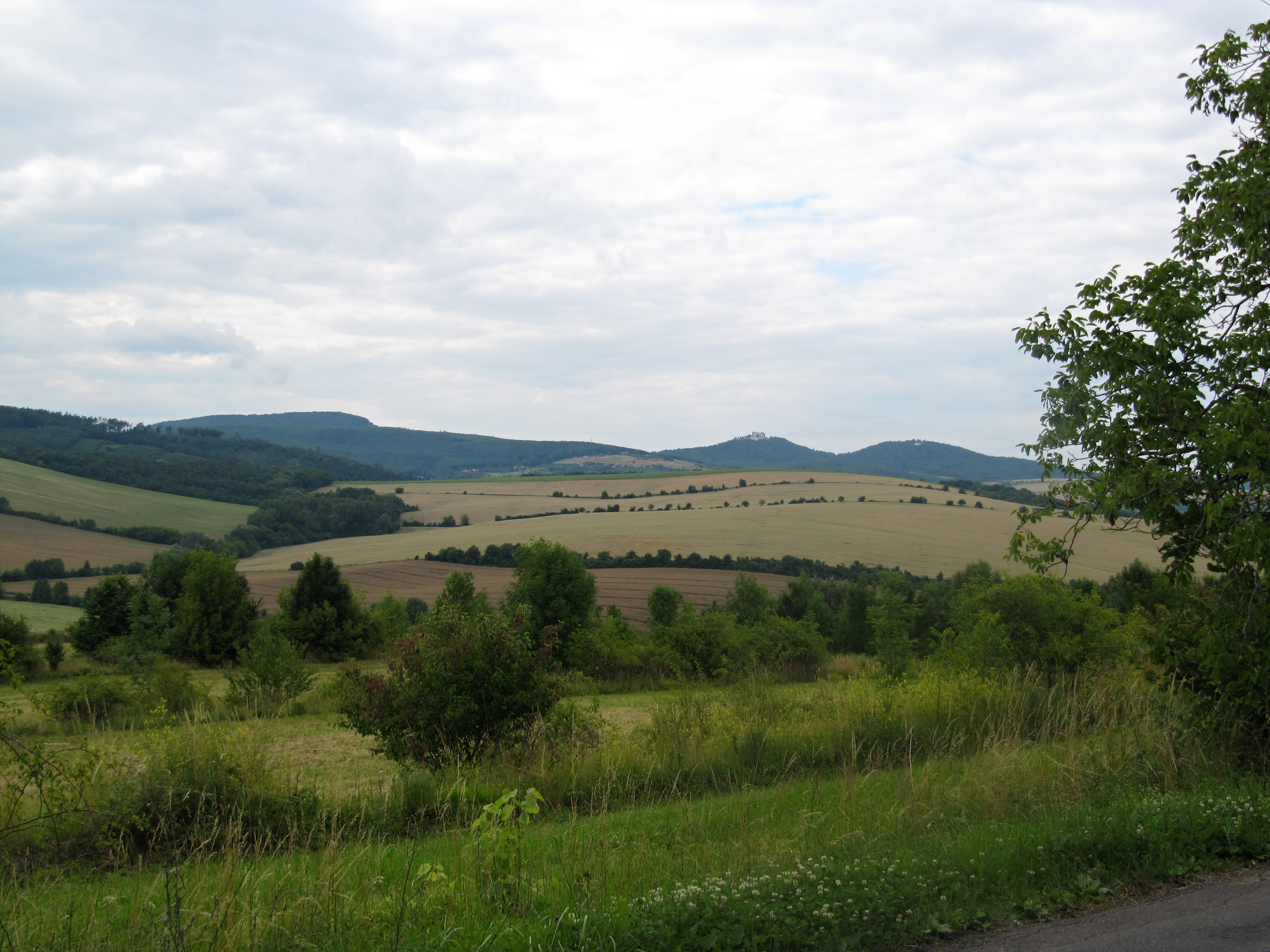 Chřiby